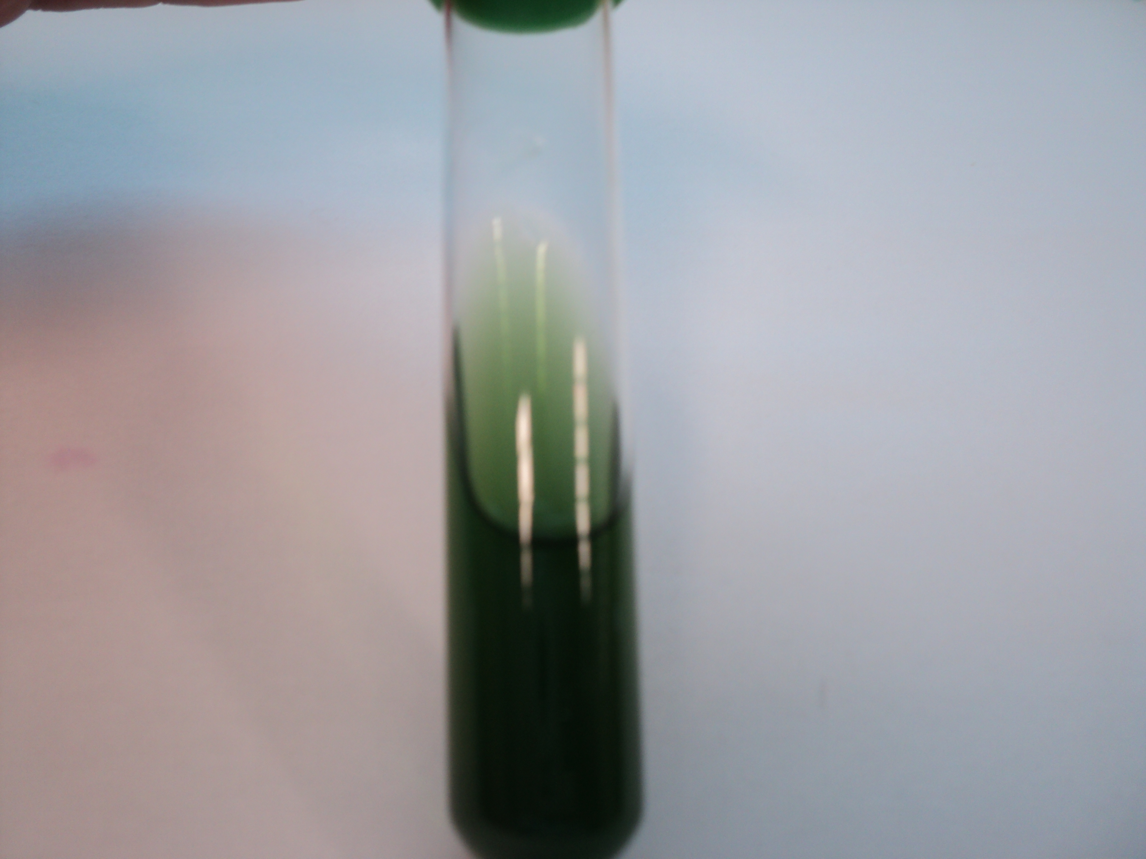 Simmons' citrate agar in a original estate (has not been planted yet)